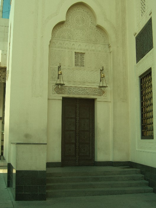 Photo: Soman